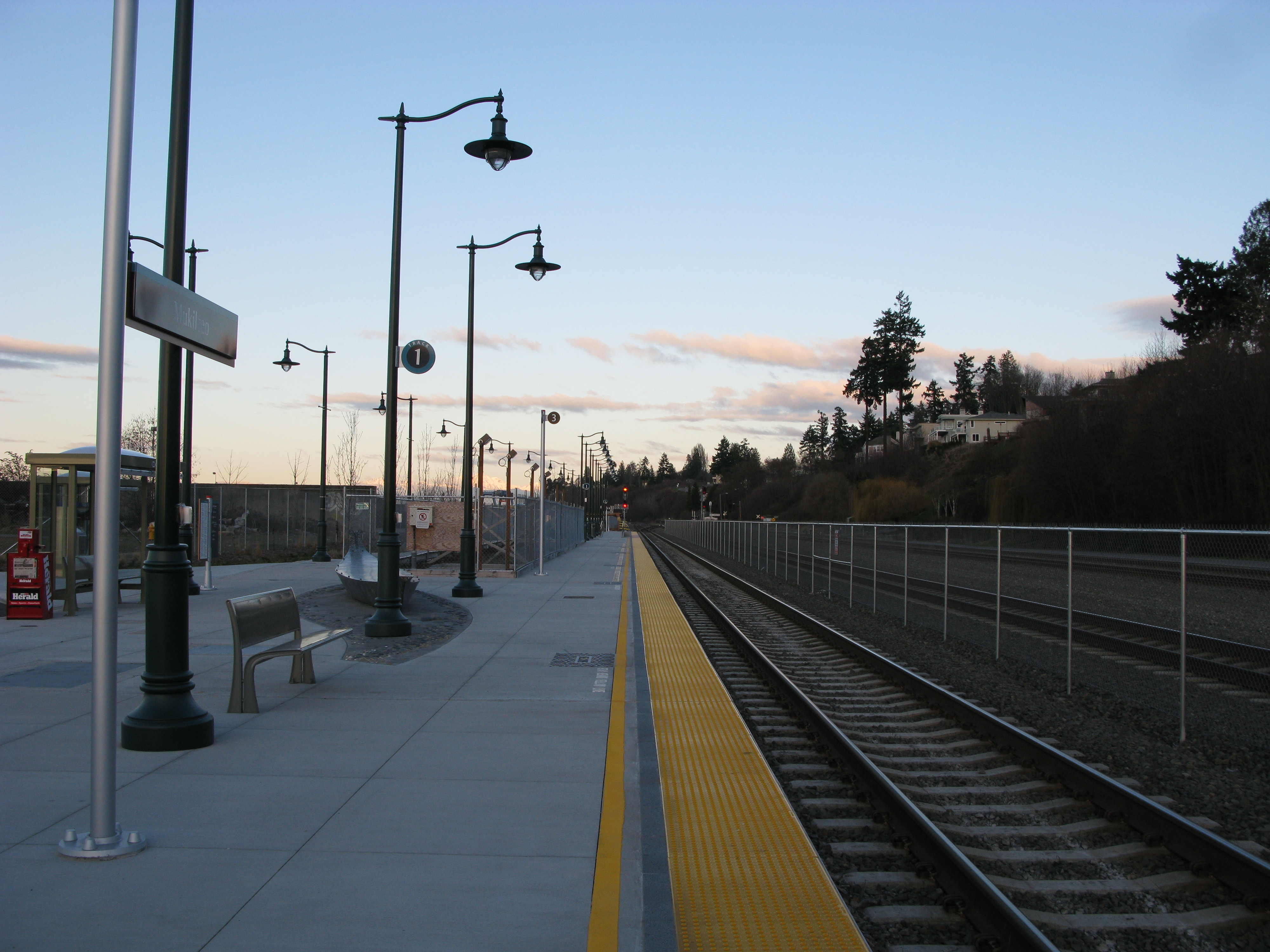 The train station in Mukilteo, Washington.